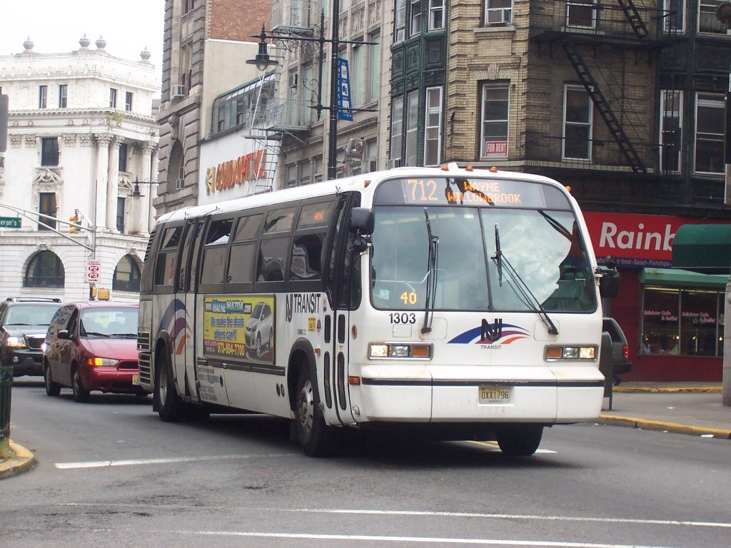 New Jersey Transit Nova RTS #1303, in Paterson, New Jersey.